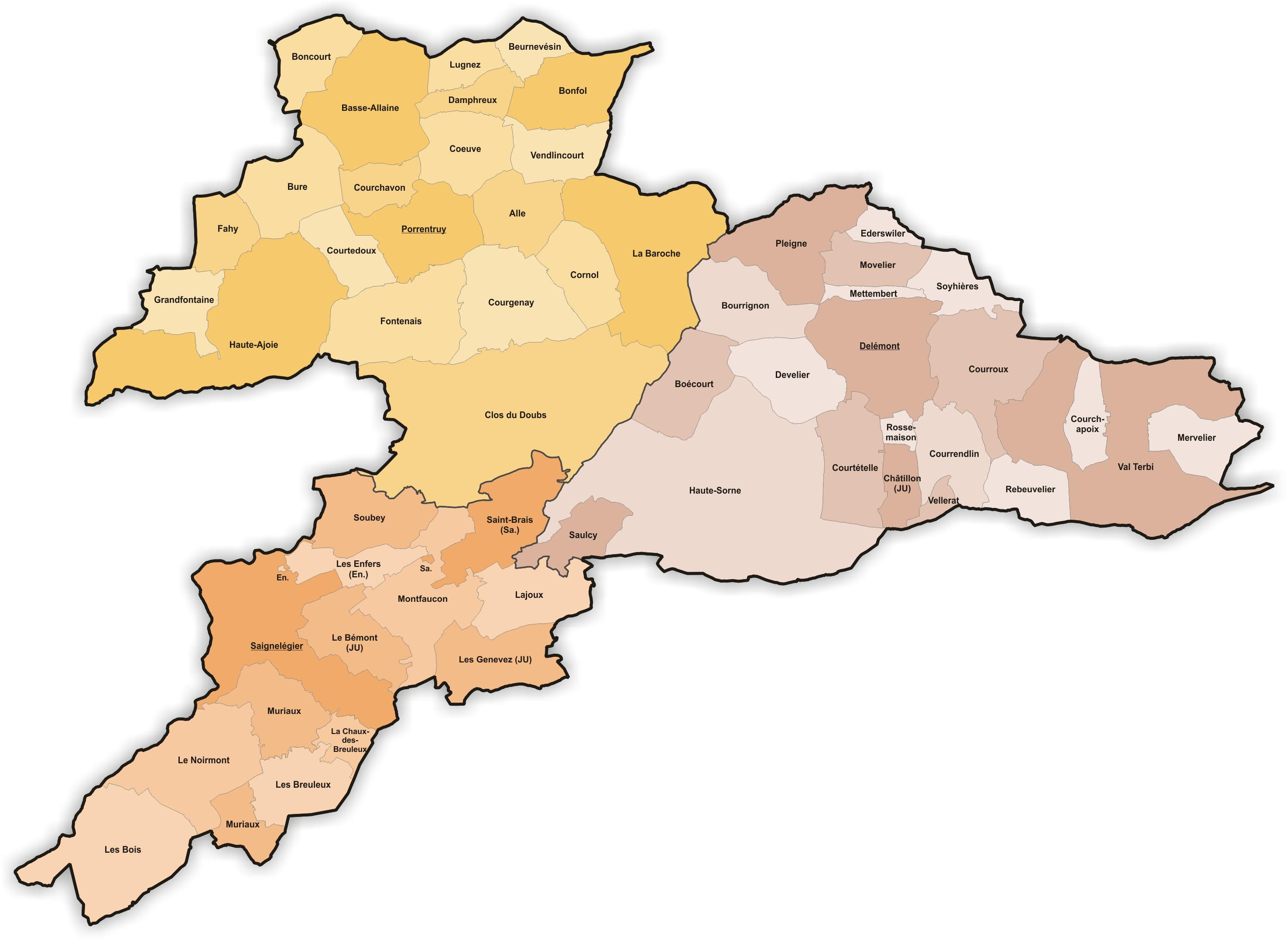 Municipalities in Canton Jura